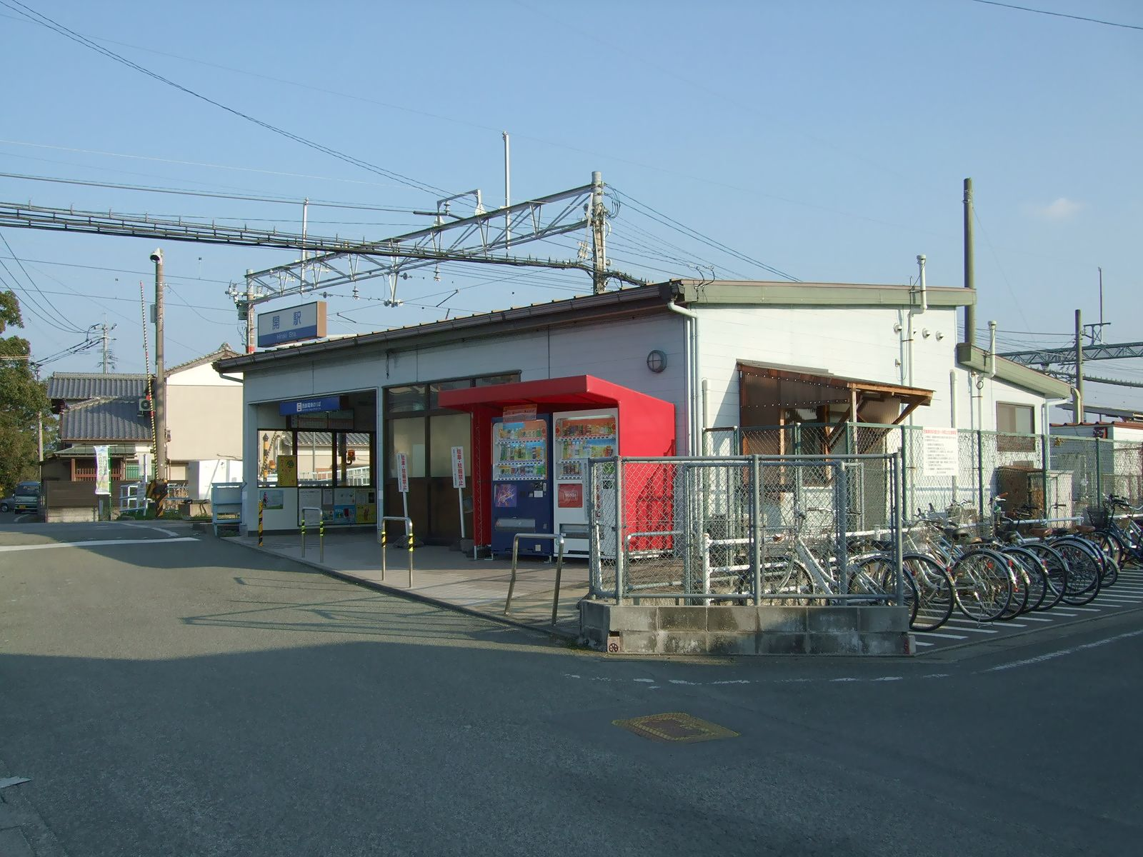 Hiraki Station, Nishitetsu Tenjin Omuta Line.